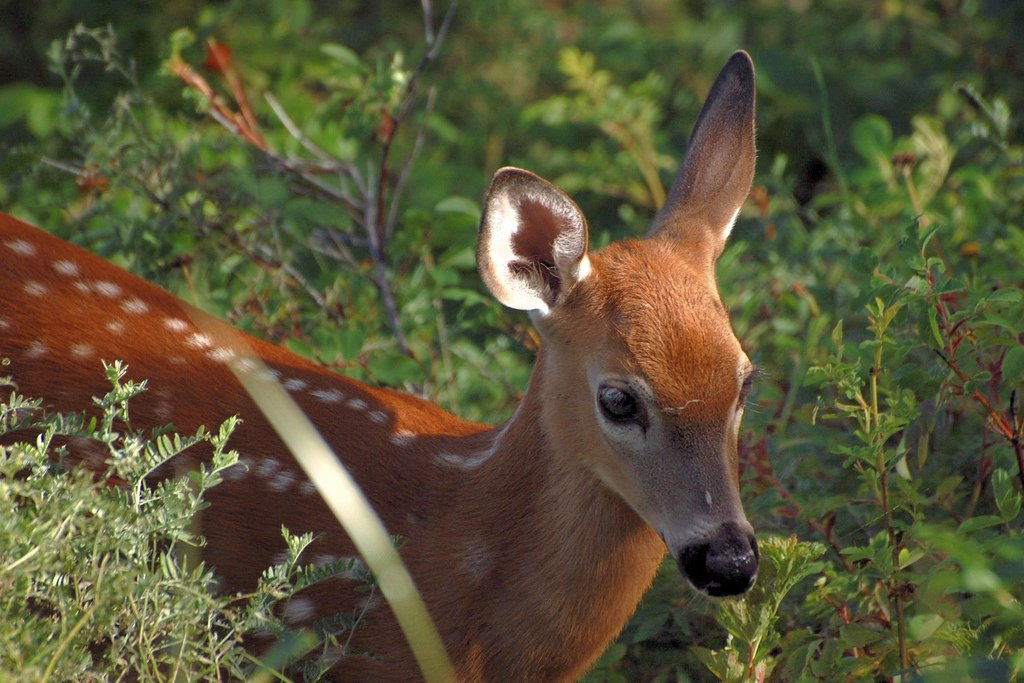 White-tailed deer fawn, Bic national park, Quebec, Canada.